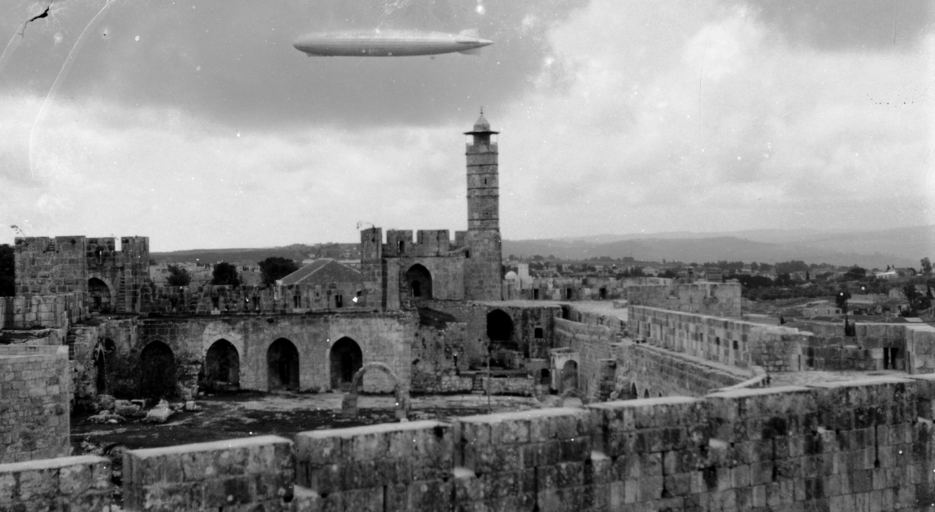 Zeppelin over Tower of David.